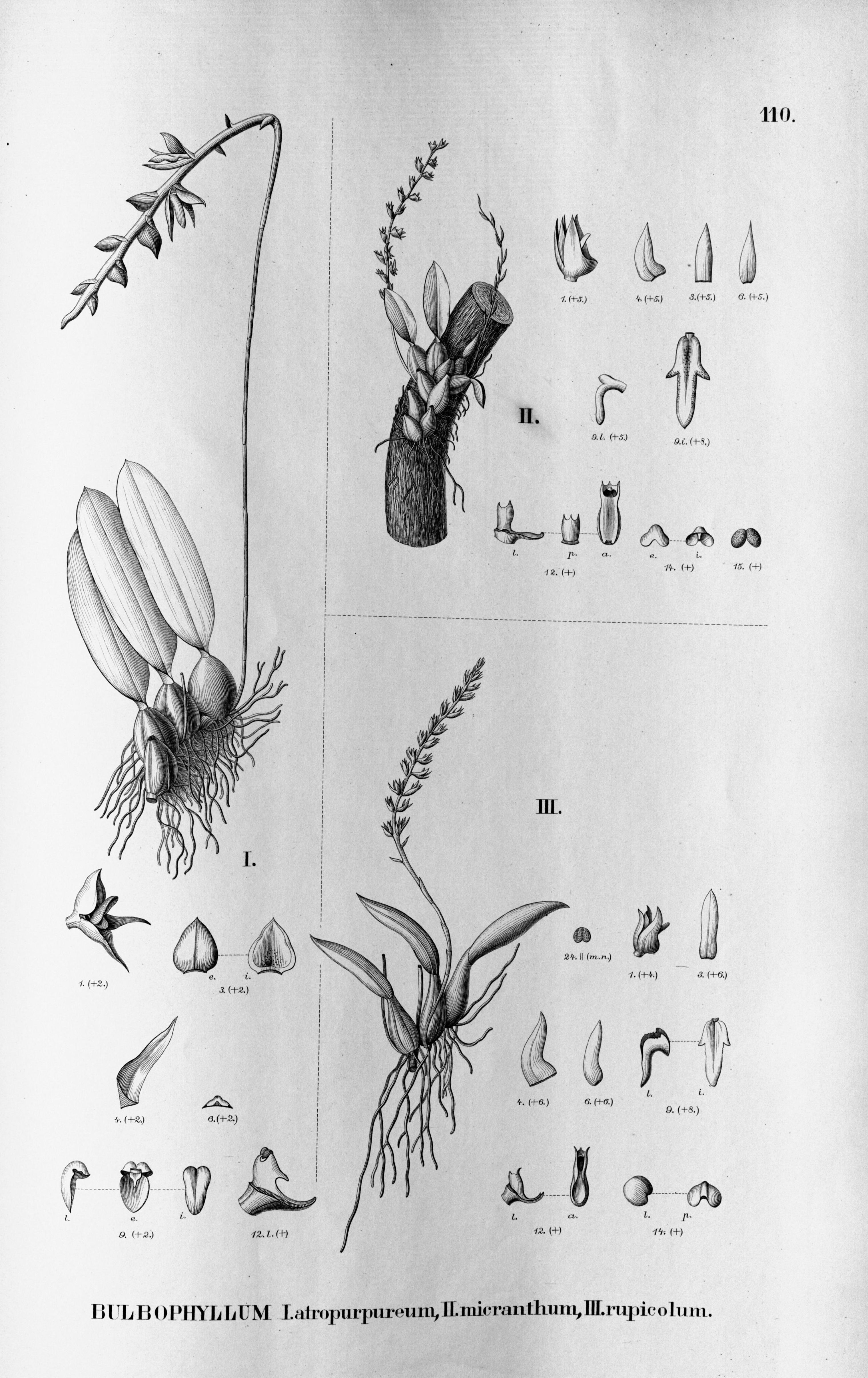 Illustration of: I. Bulbophyllum atropurpureum II. Bulbophyllum micranthum III. Bulbophyllum rupicola (spelled by Cogniaux Bulbophyllum rupicolum)